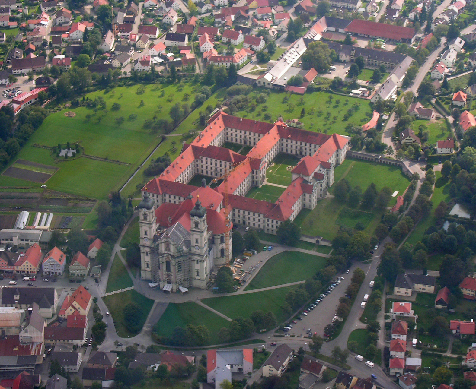 Germany, Aerial view of Ottobeuren